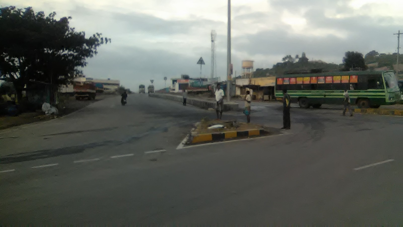 ஒசூர் உள் வட்டச்சாலை